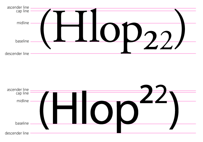 This shows the difference between professionally designed subscripts and superscripts (the first "2") and a manual approximation using a smaller displaced version of the standard "2." The fonts are Adobe Garamond Pro and Myriad Pro.